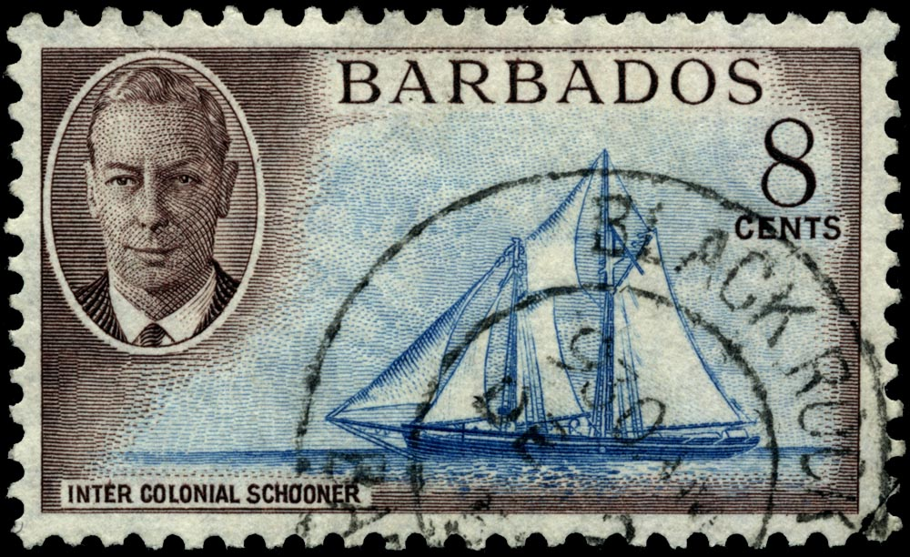 Barbados 8c stamp of 1950